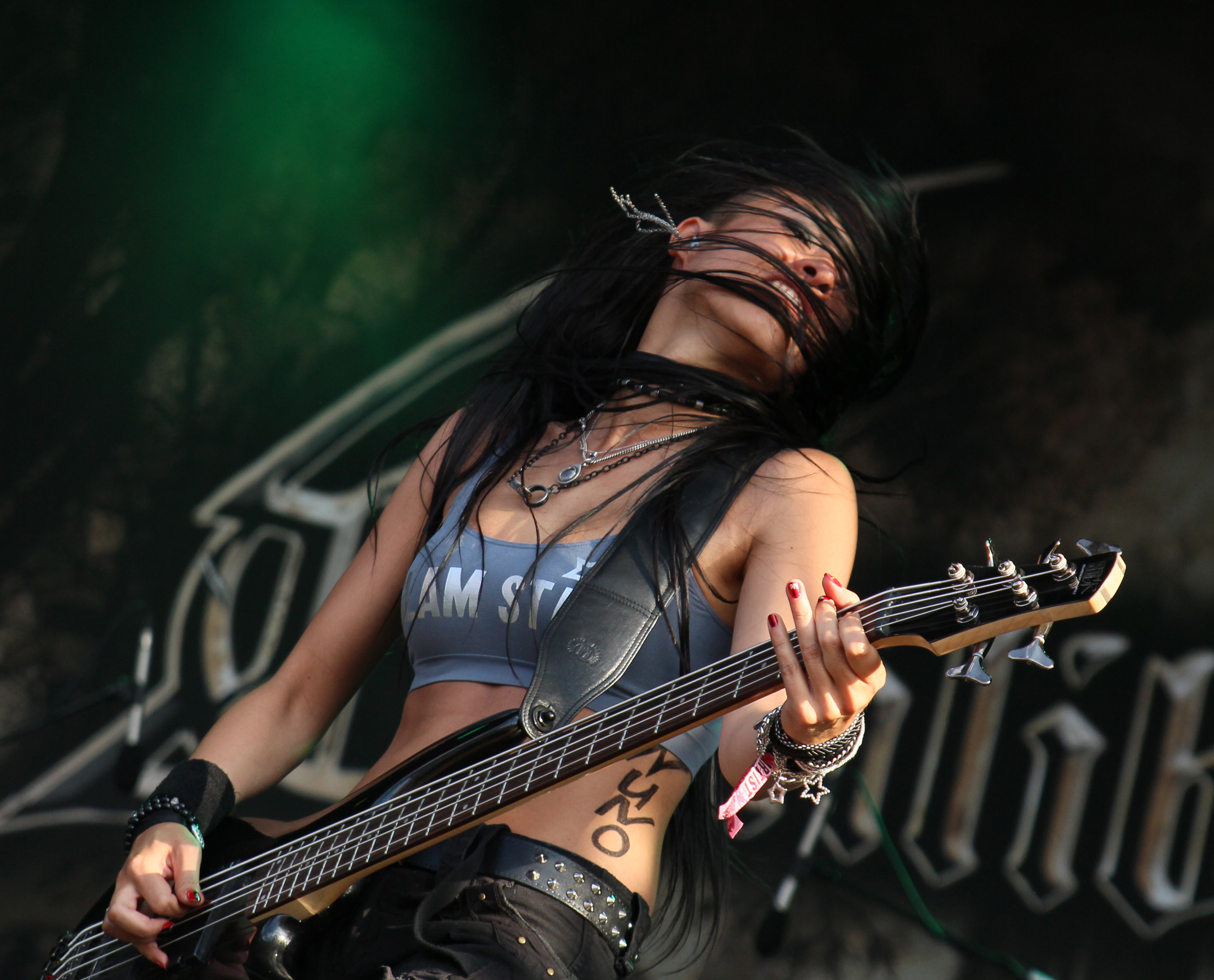 The German pagan metal band Equilibrium at the Rockharz Open Air 2014 in Ballenstedt/Germany